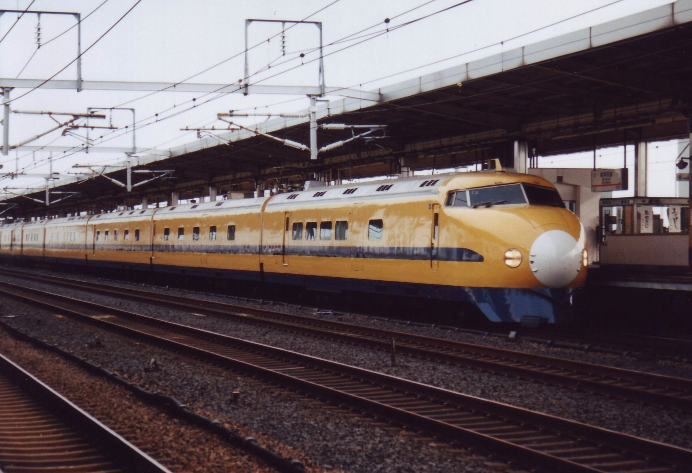 JR Central Class 922 "Doctor Yellow" shinkansen inspection set T2 at Gifu-Hashima Station on the Tokaido Shinkansen